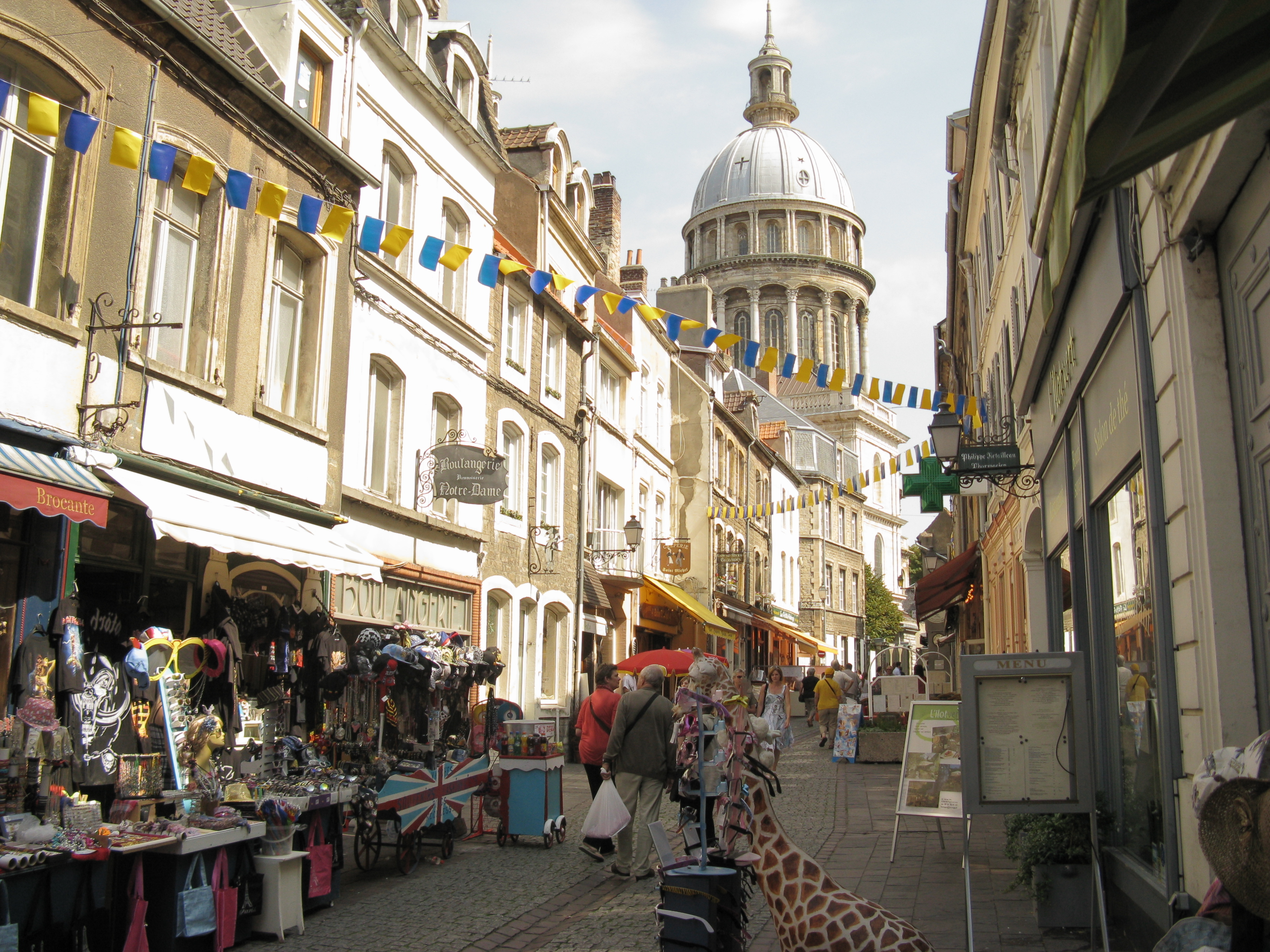 Boulogne-sur-Mer, Pas-de-Calais, France.